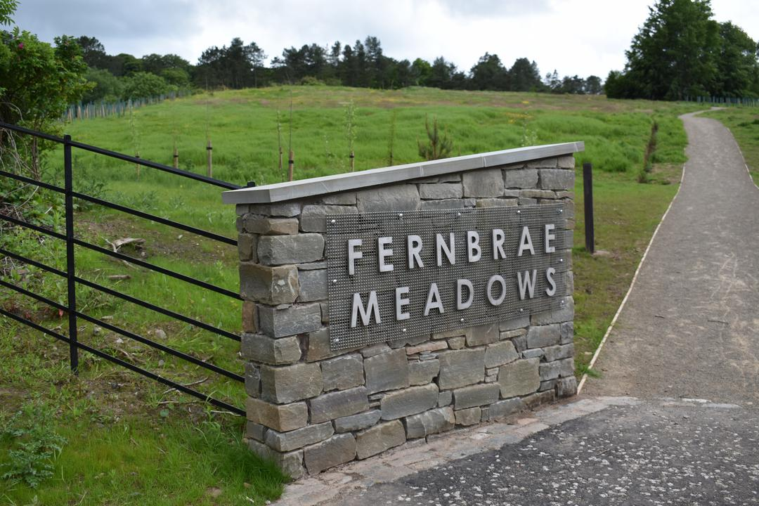 Metal sign on brick wall